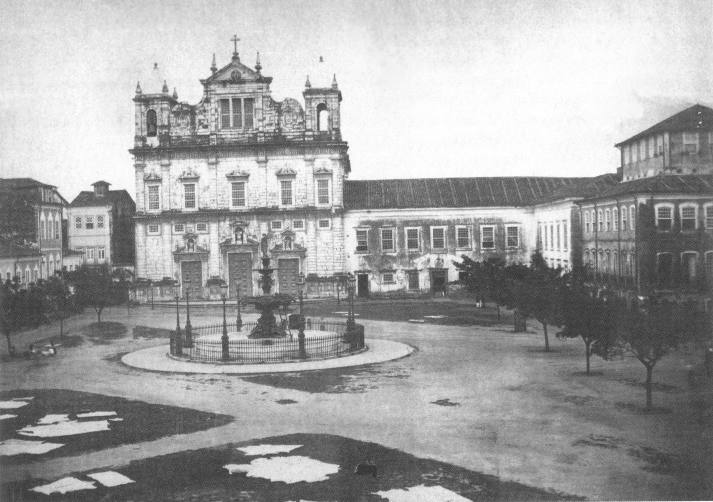 In Terreiro de Jesus, the former Jesuit College church, now the Cathedral Basilica: beside it stands the College, later the School of Medicine. Clothing was dyed in the plaza. Note that the porch at the College entrance has disapperead. The arms of the empire have been placed above the door and new trees planted.